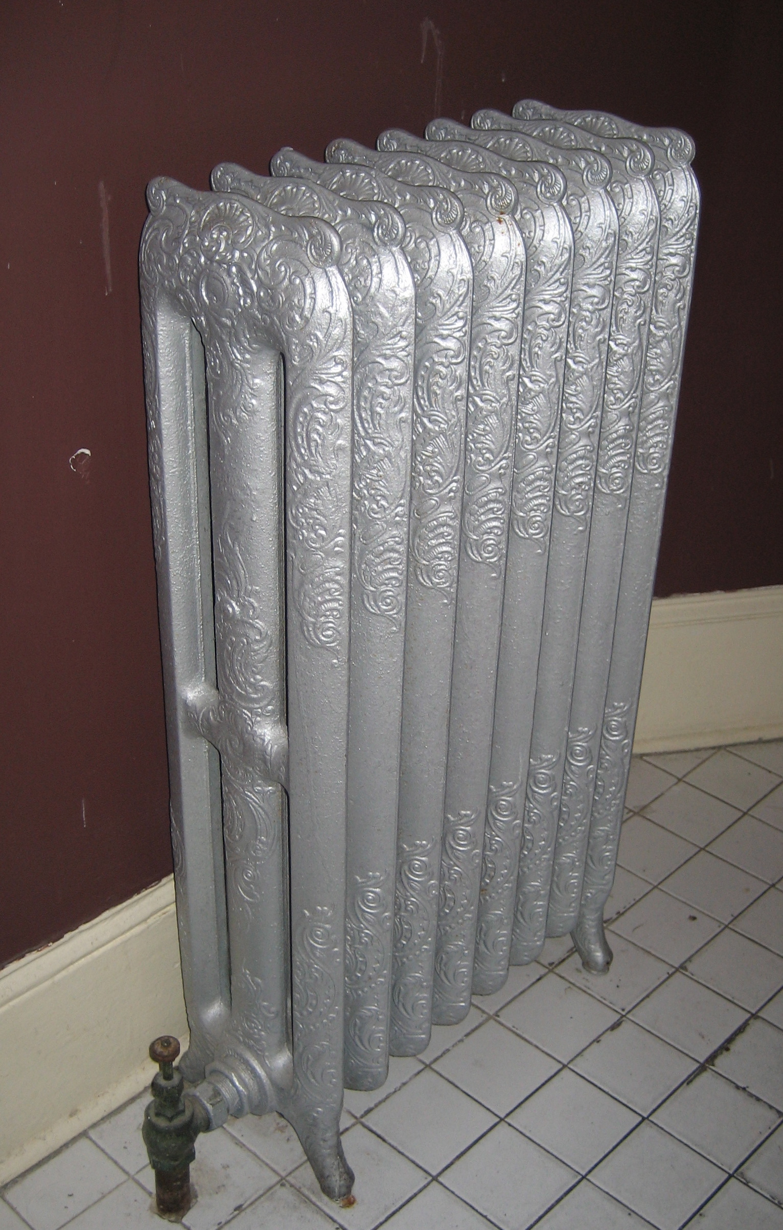 Radiator with decorative scrollwork in 19th century house in Uptown New Orleans